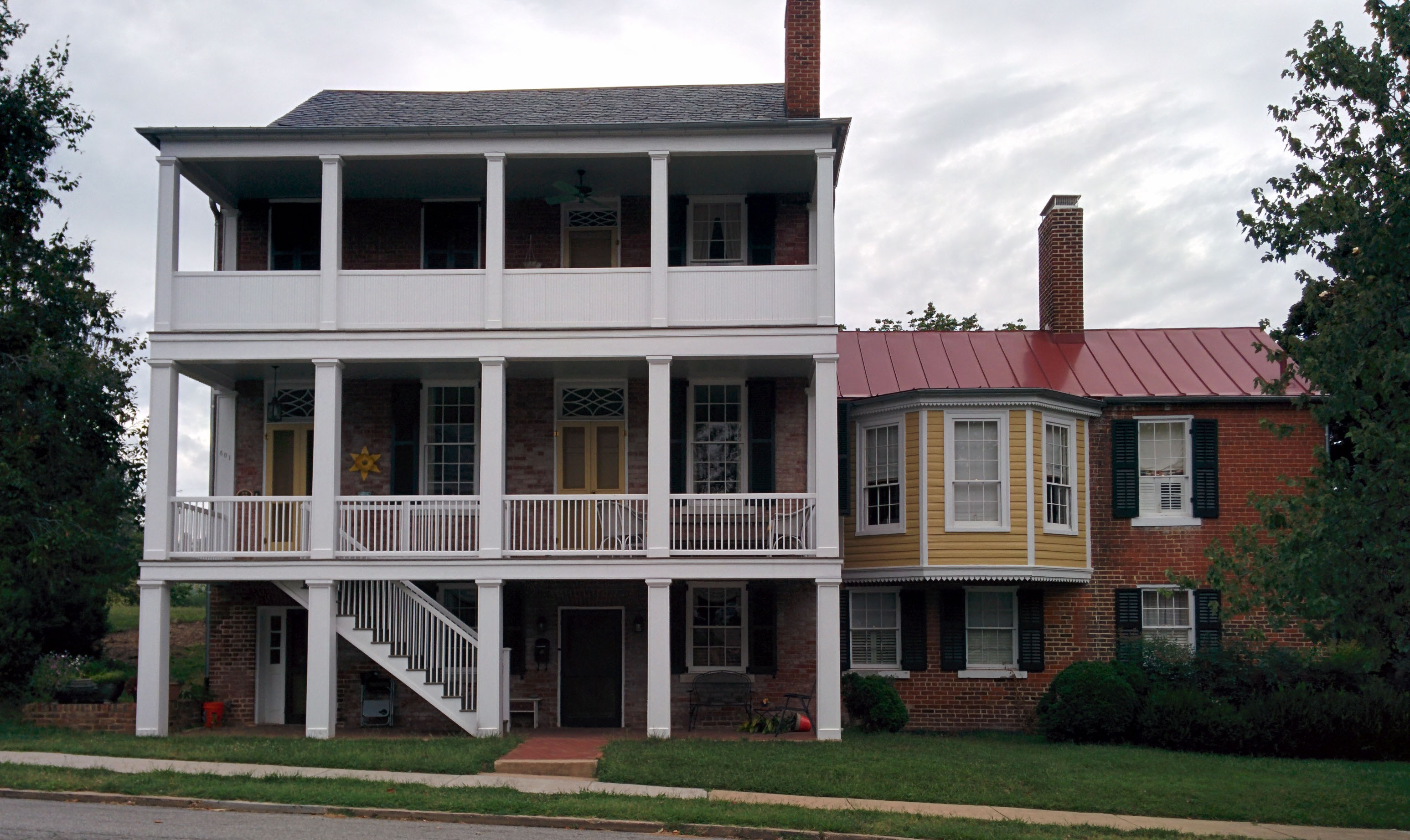 Photograph of the Rowe House in Fredericksburg, Virginia. Taken on 8 September 2014.